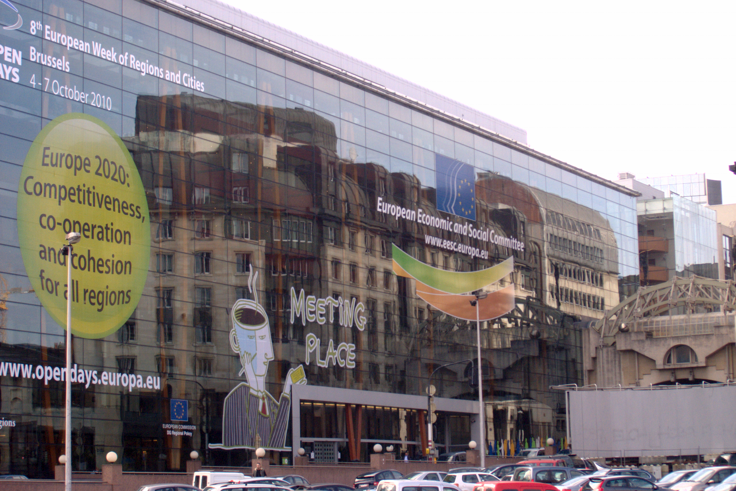 Jacques Delors building, Rue Belliard, Brussels, home to the European Economic and Social Committee and the Committee of the Regions.